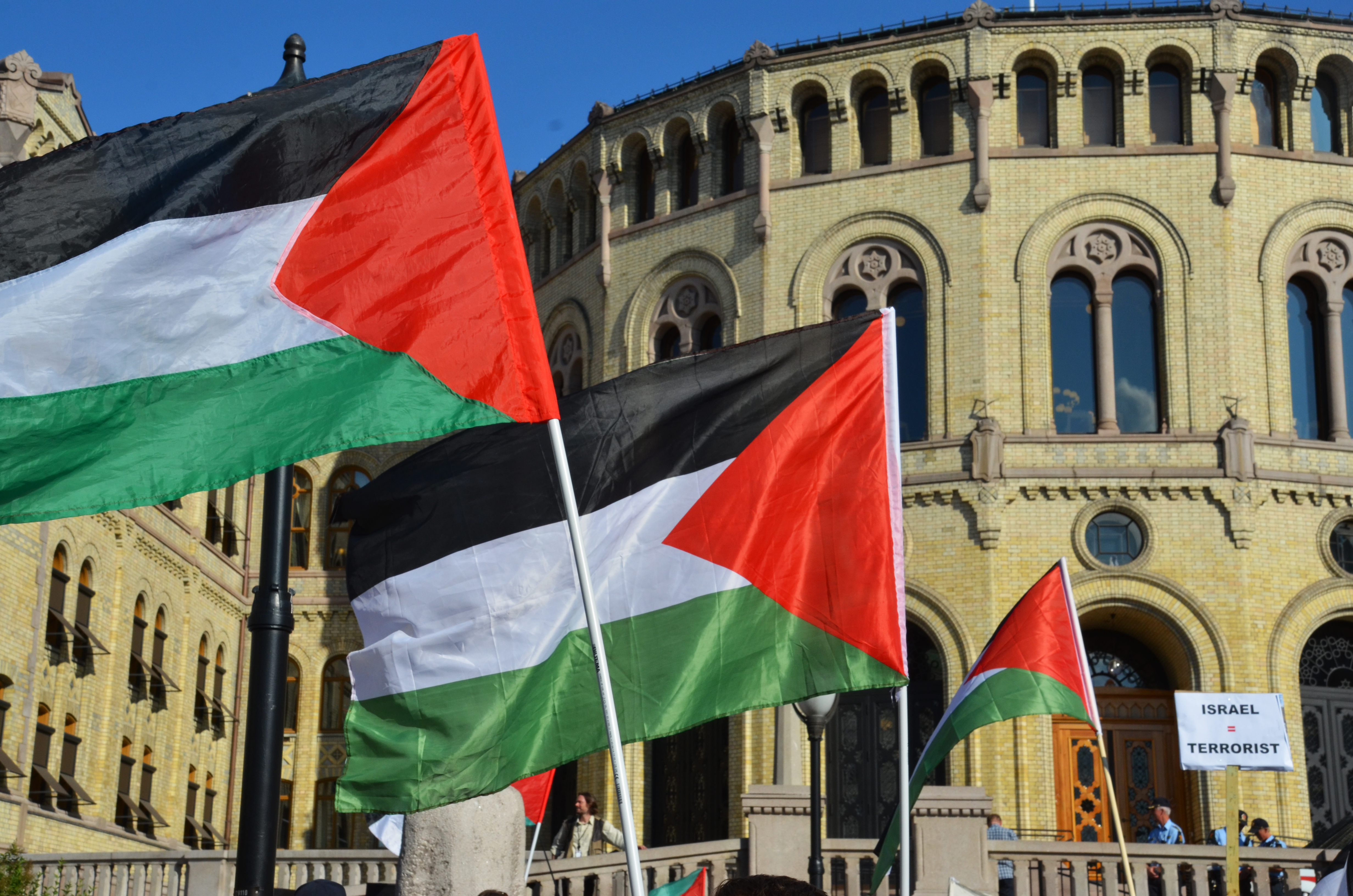 Palestinian flags in front of the Norwegian parliament Stortinget during a rally in 2014.